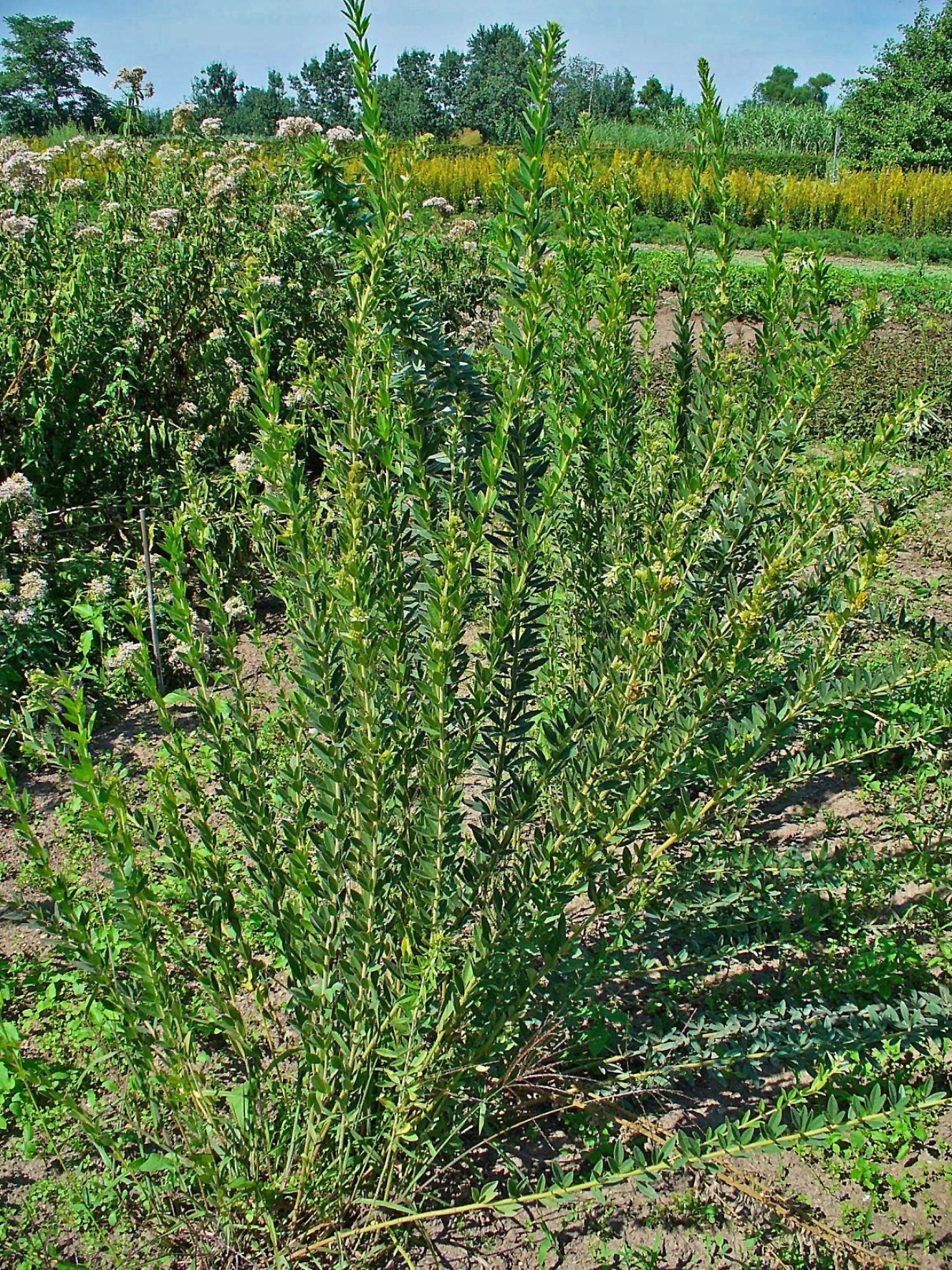 Lespedeza capitata, Fabaceae, Round-head Bush-clover, habitus. The fresh, aerial parts of blooming plants are used in homeopathy as remedy: Lespedeza capitata (Lesp-c.)